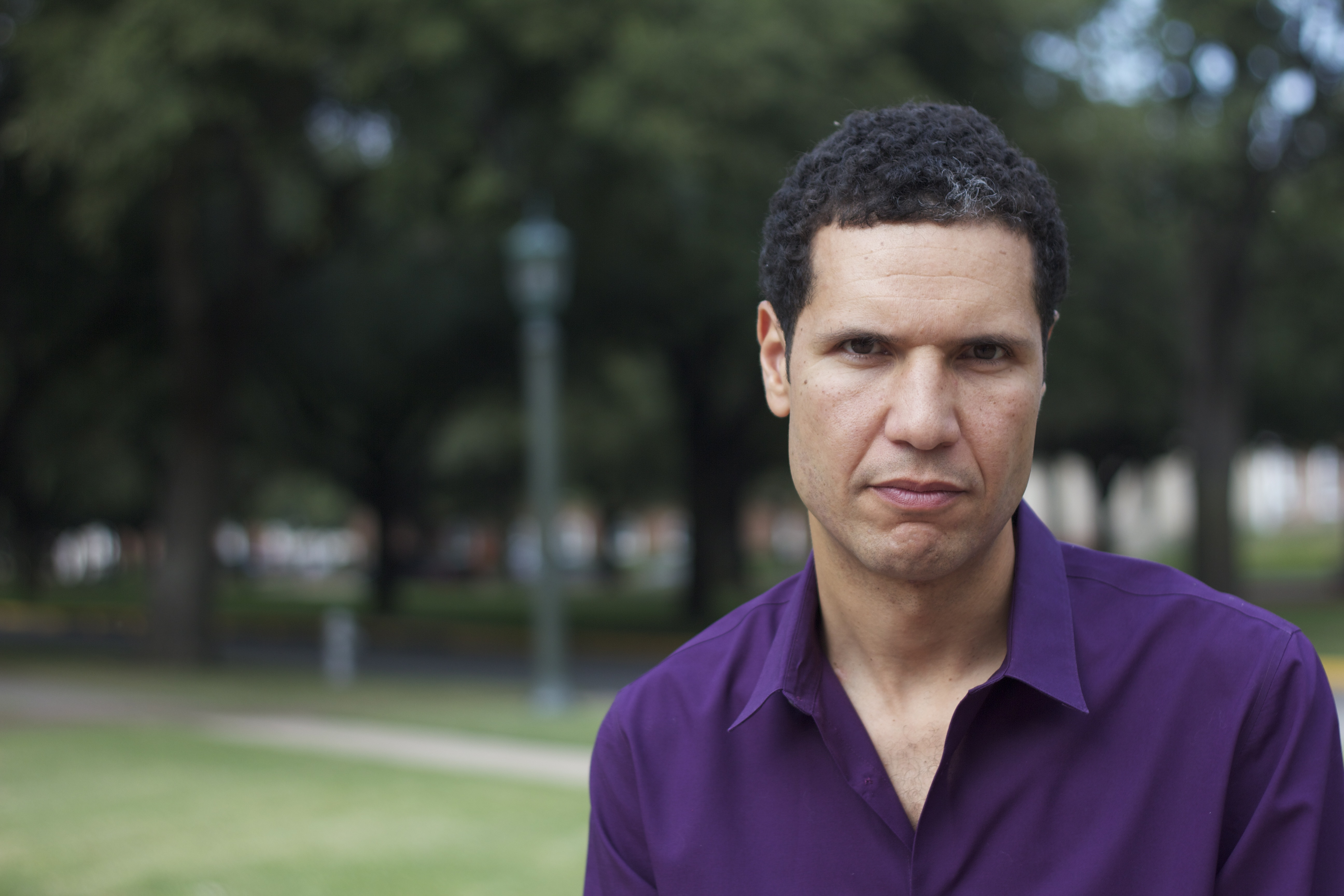 Photo of Will Power (Playwright) taken by AceShotThat (Adam A. Anderson)